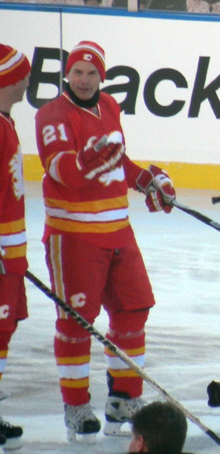 Former NHL player Perry Berezan during the alumni game at the 2011 Heritage Classic in Calgary.